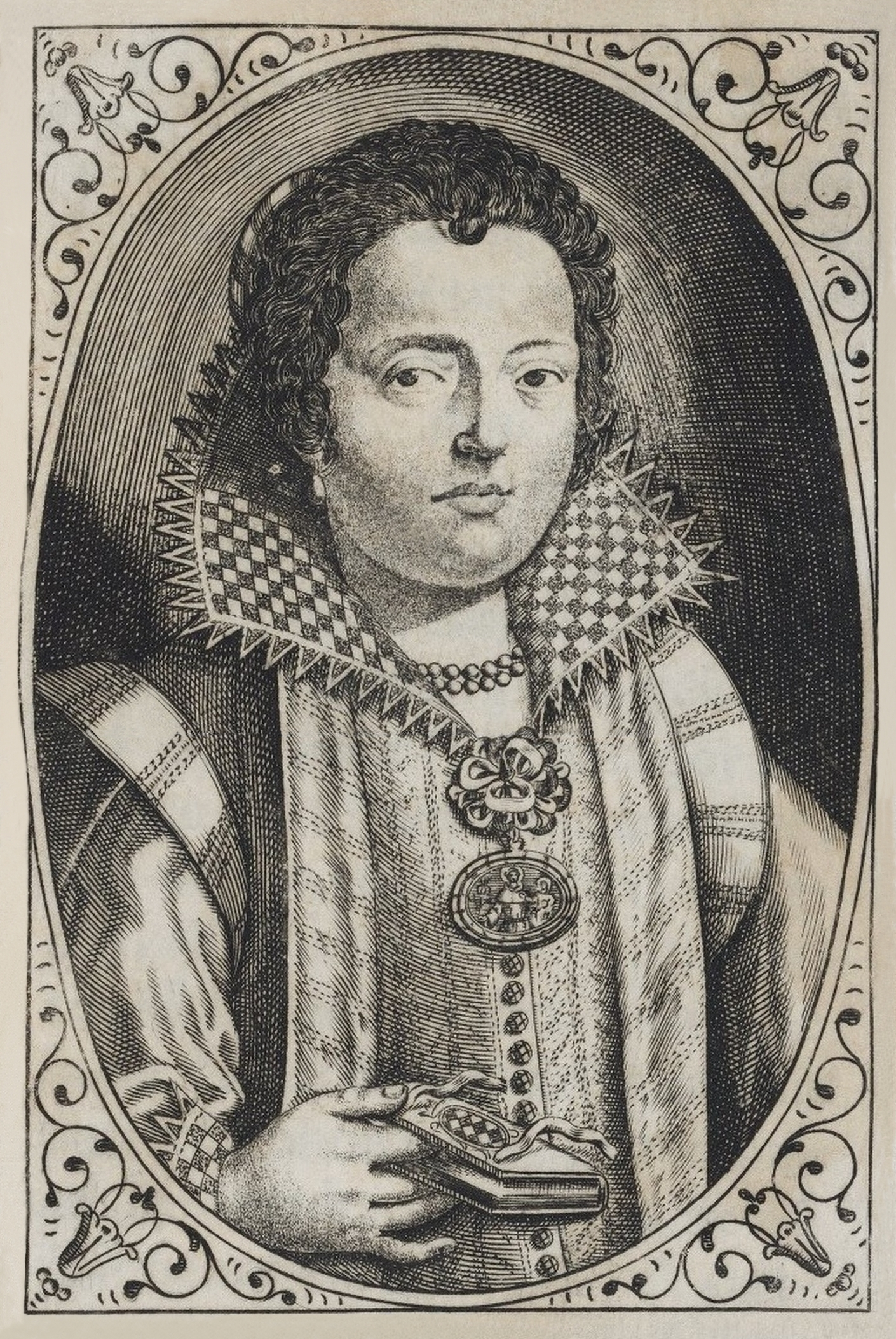 Adriana Basile (c. 1580 – c. 1642) - a famous Neapolitan singer, musician and composer. Name variations: Adreana, Adriana Basile–Baroni.